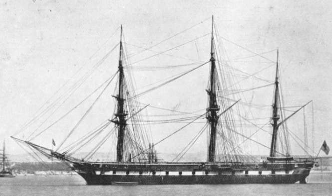 Photograph of British frigate HMS Liverpool